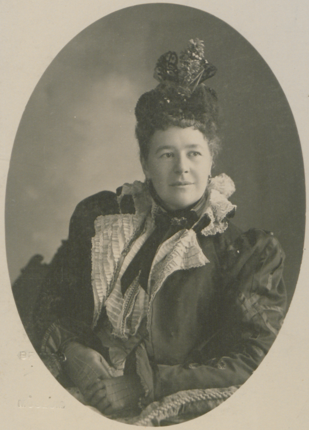 Her Excellency Lady Aberdeen.